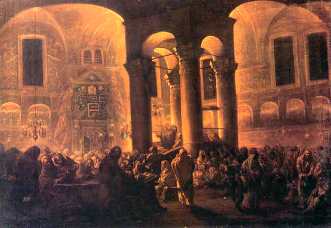 Józef Brodowski the Elder, Synagogue in Przeworsk, Gallery in Lviv